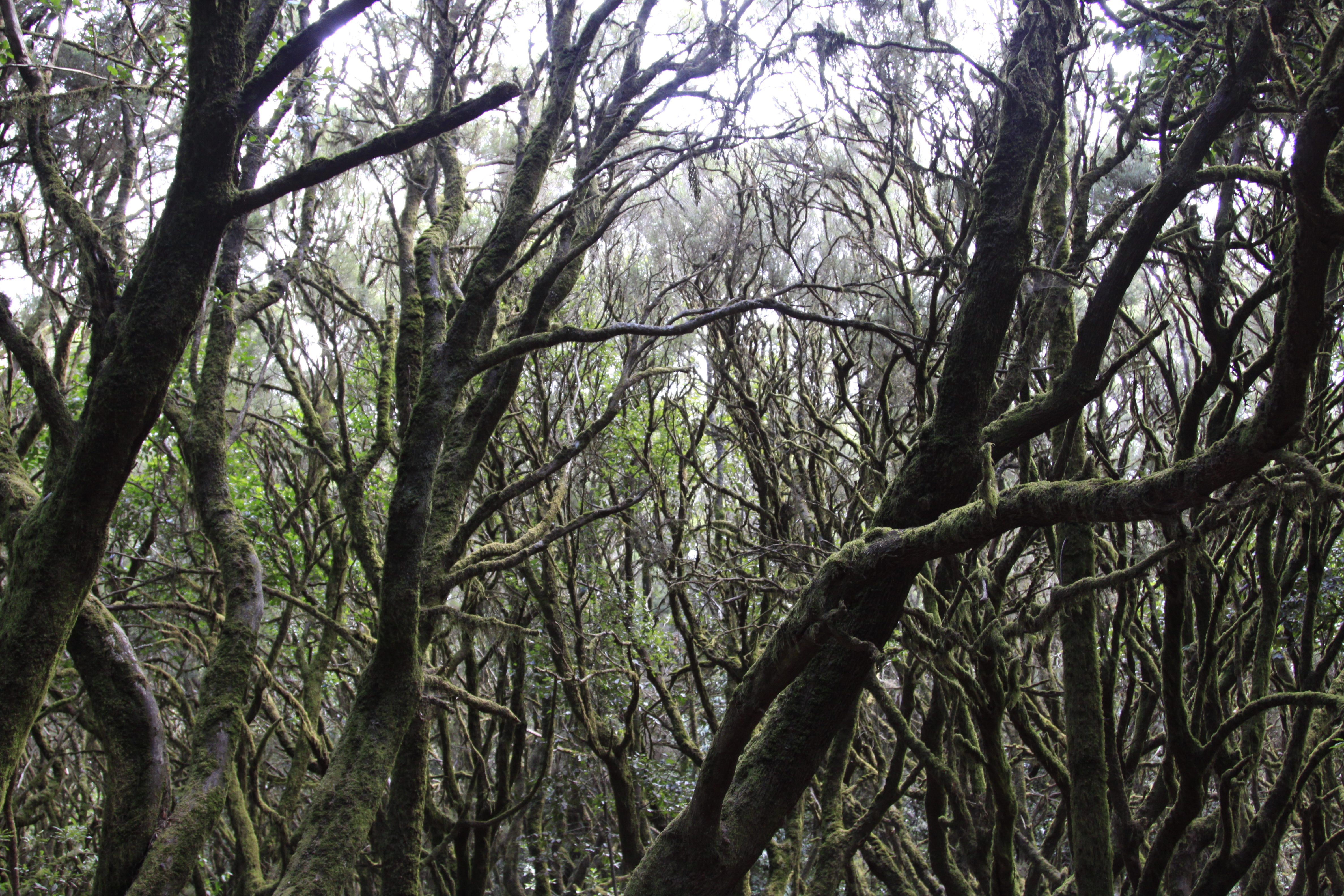 Trees in part of Garajonay National Park, La Gomera